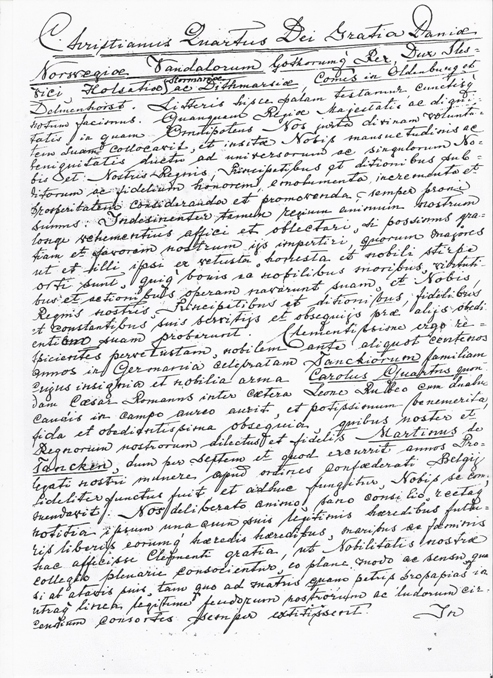 King Christian IV of Denmark and Norway's letter of 23 October 1643 ennobling Martin Tanche, page 1 of 3.